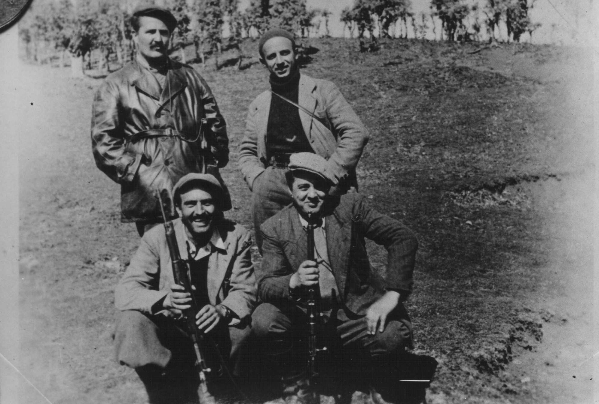 Delegates of the Yugoslav Communist Central Committee Miladin Popović, standing to the left, and Dušan Mugoša, sitting to the left, with Albanian Communist leader Enver Hoxha sitting to the right, in 1942 or 1943.